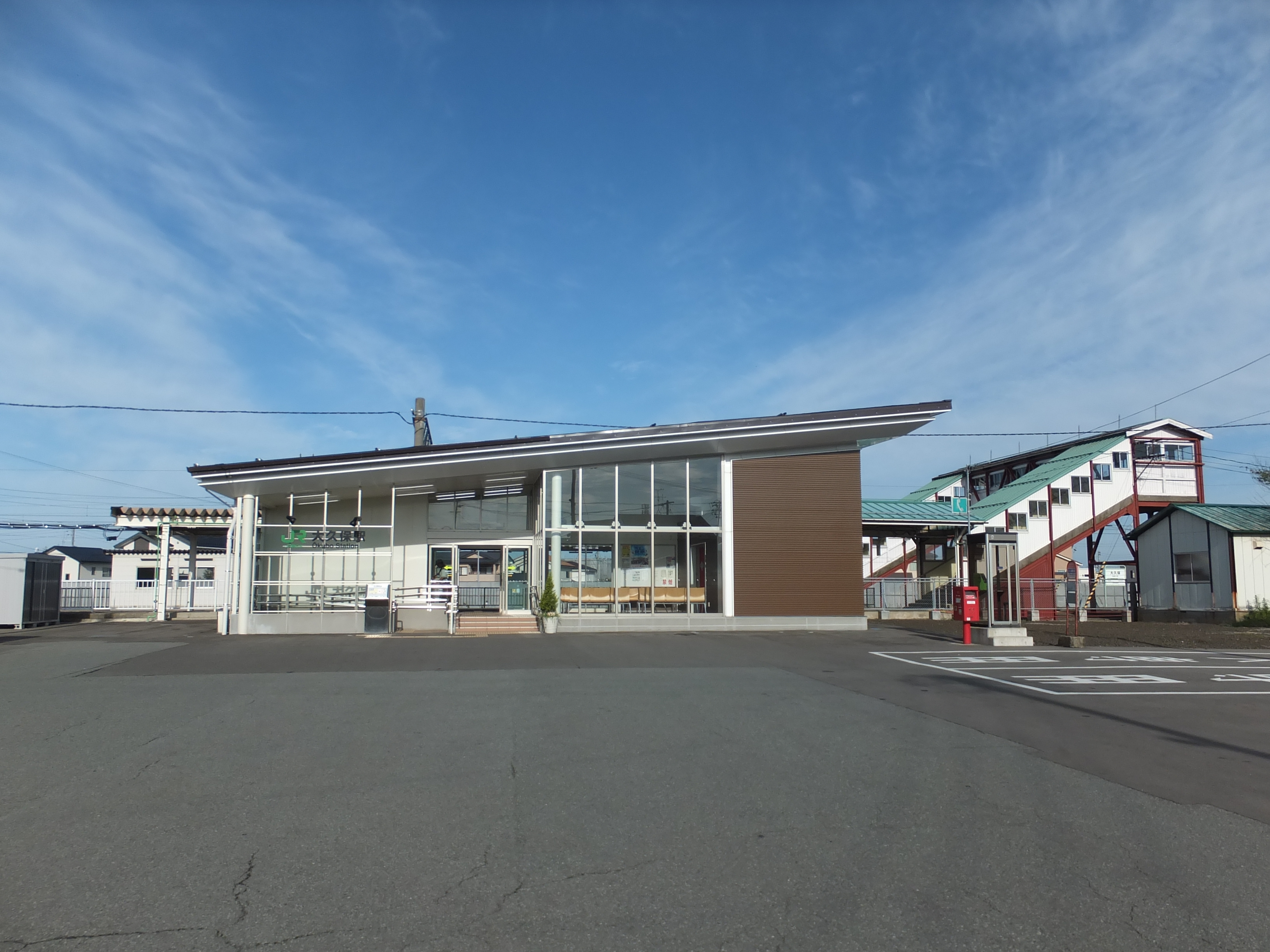 Ōkubo Station on the Ou Main Line in Akita Prefecture, Japan